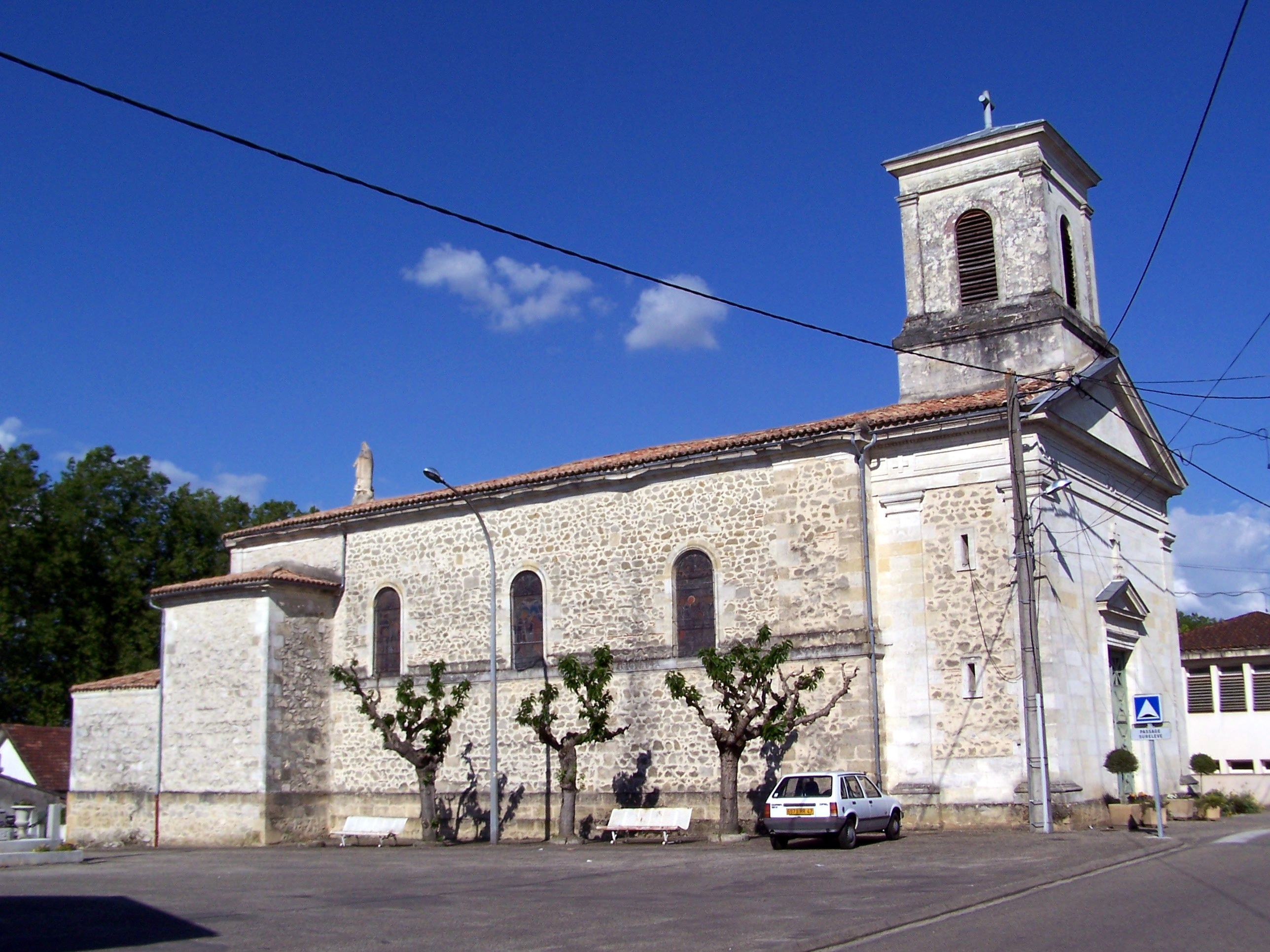 Our Lady's church of Fourques-sur-Garonne (Lot-et-Garonne, France)